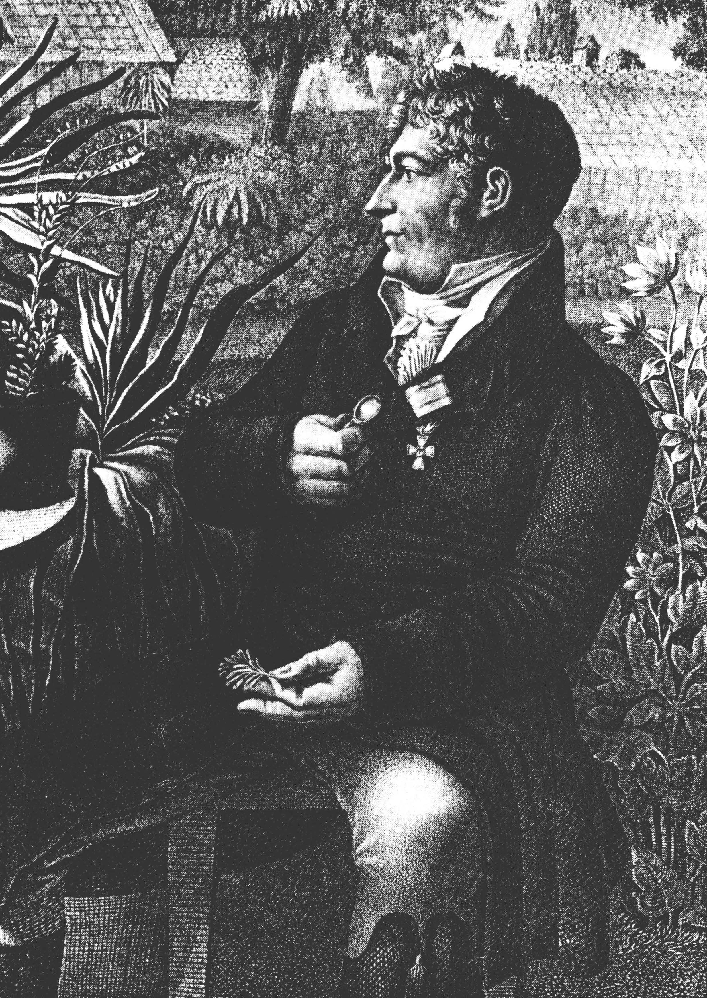 Carl Ludwig Willdenow (1765–1812)